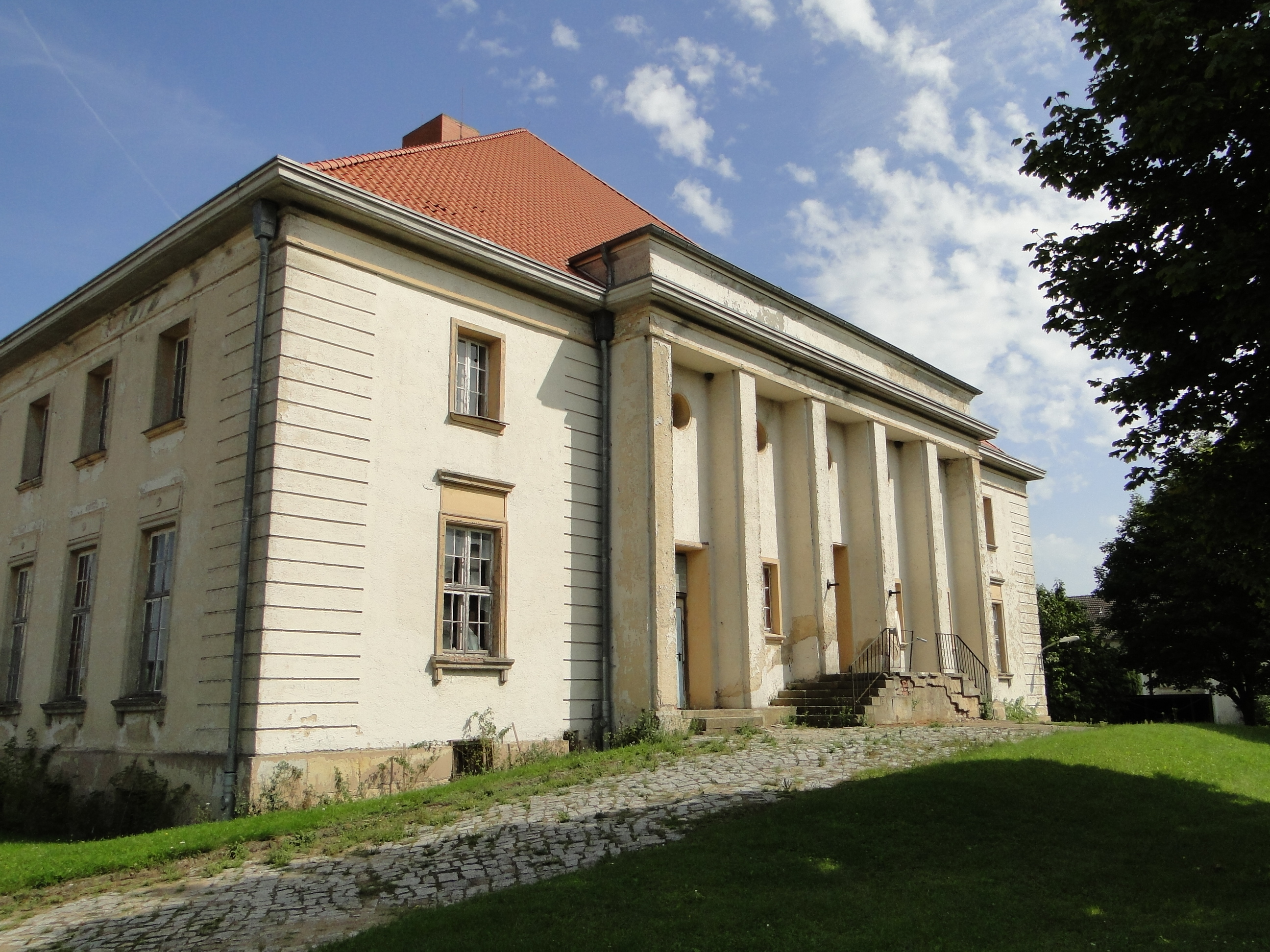 Cultural Center in Mestlin, district Parchim, Mecklenburg-Vorpommern, Germany